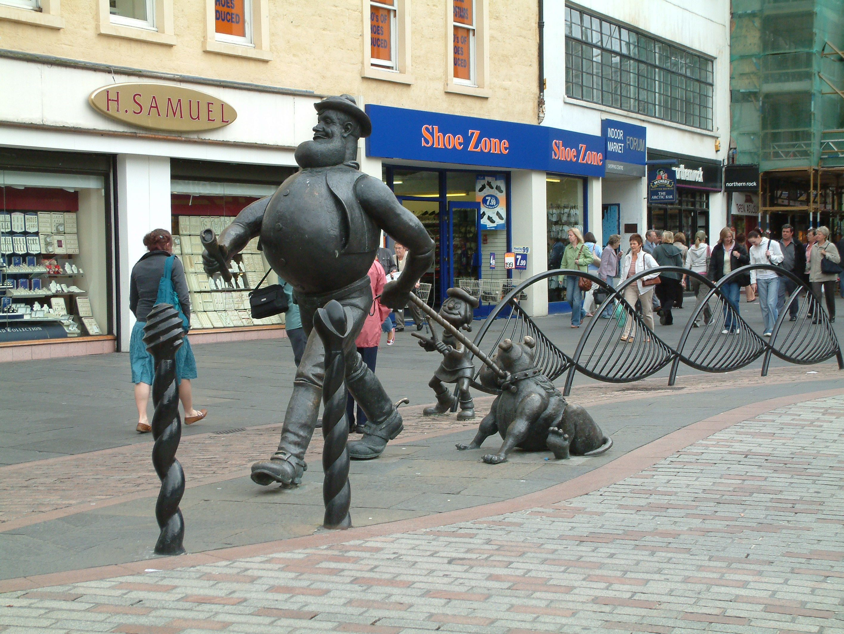 A square in Dundee, Scotland, UK.